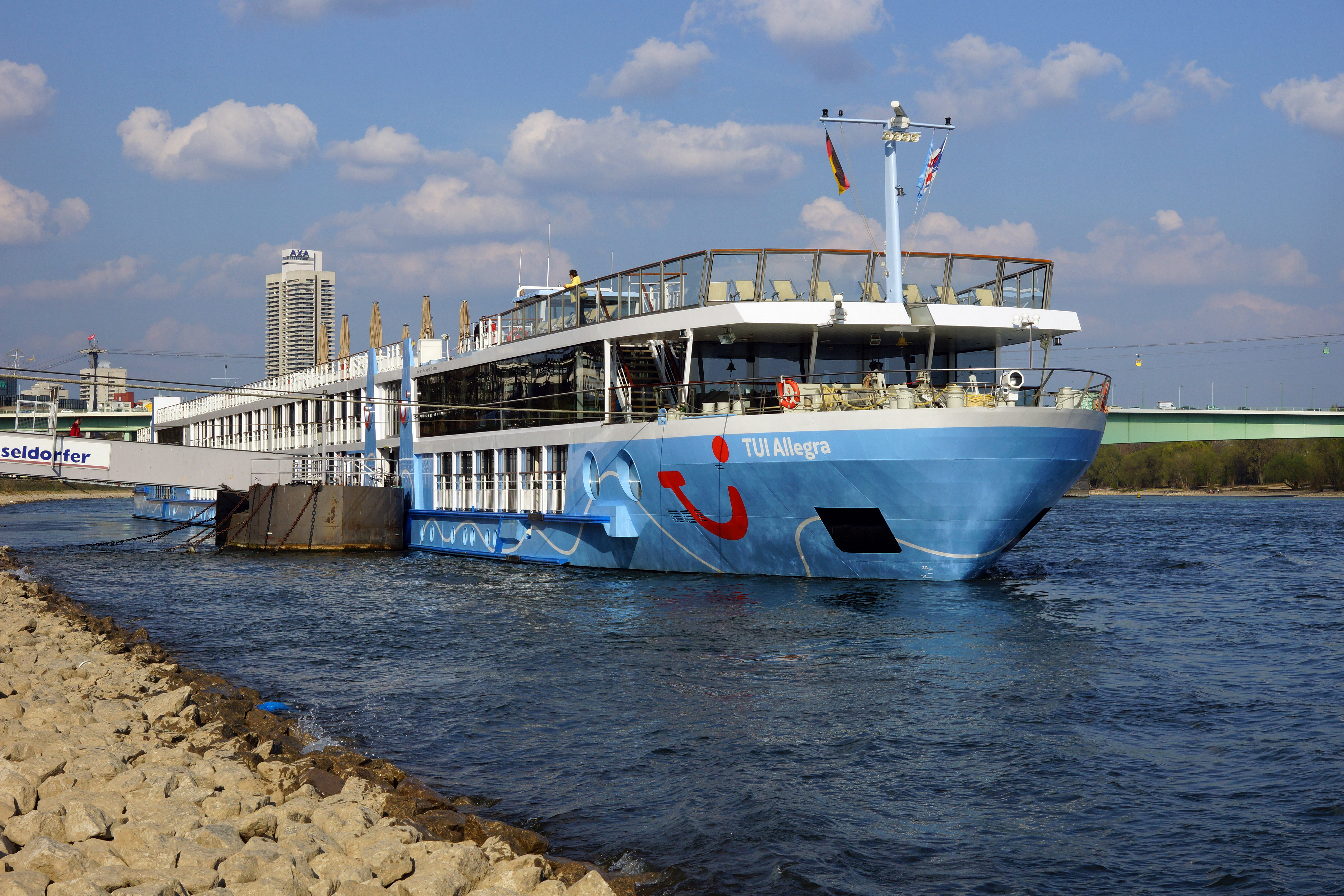 River cruise ship TUI Allegra in Cologne.